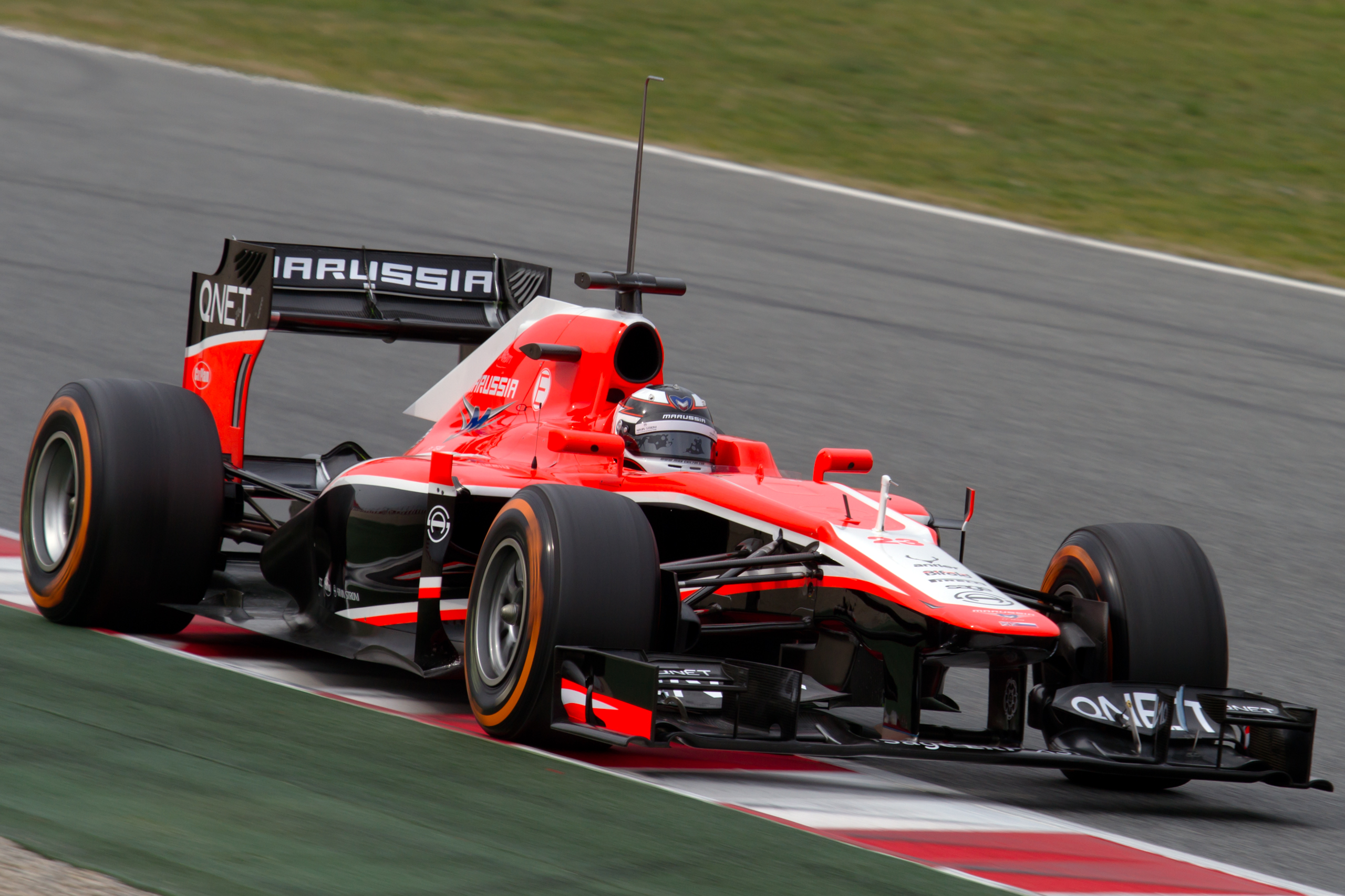 Formula One 2013 Catalonia test (19-22 February): Max Chilton (Marussia)